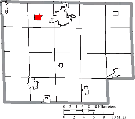 Map of the municipal and township boundaries of Huron County, Ohio, United States, as of the 2000 census, with the location of the village of Monroeville highlighted. Township borders are shown only in unincorporated areas in order to differentiate incorporated and unincorporated areas more clearly.